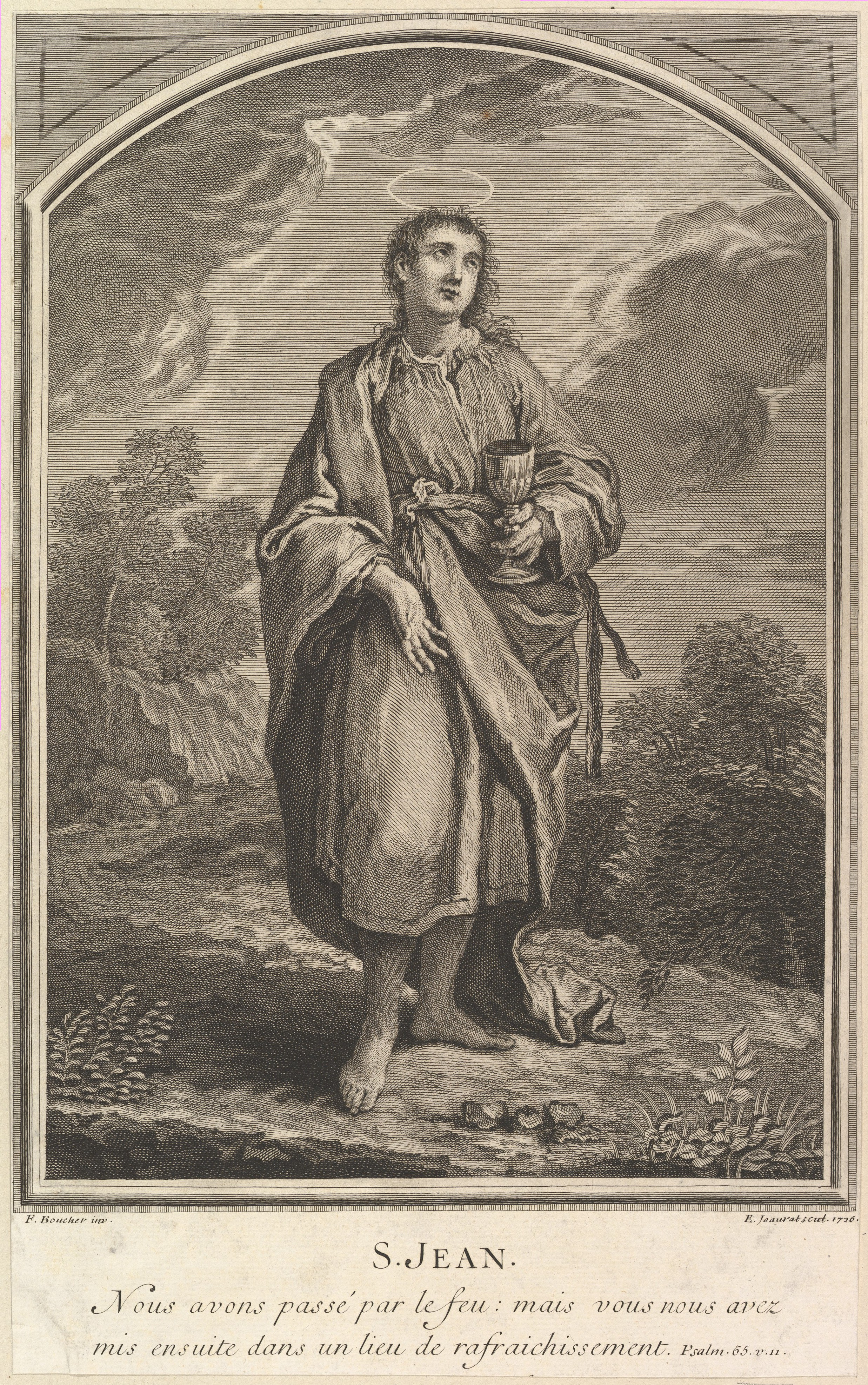 Print; Prints